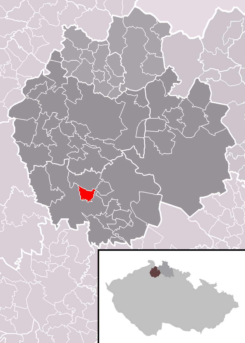 Location of Vrchovany municipality within Česká Lípa District and administrative area of Česká Lípa as a Municipality with Extended Competence.